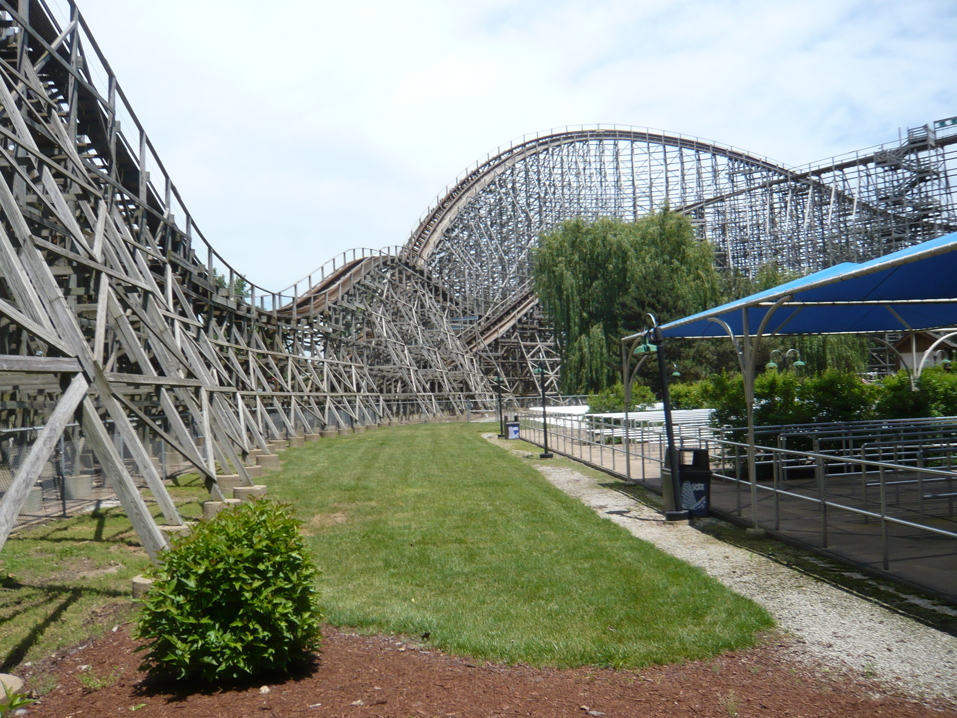 Mean Streak